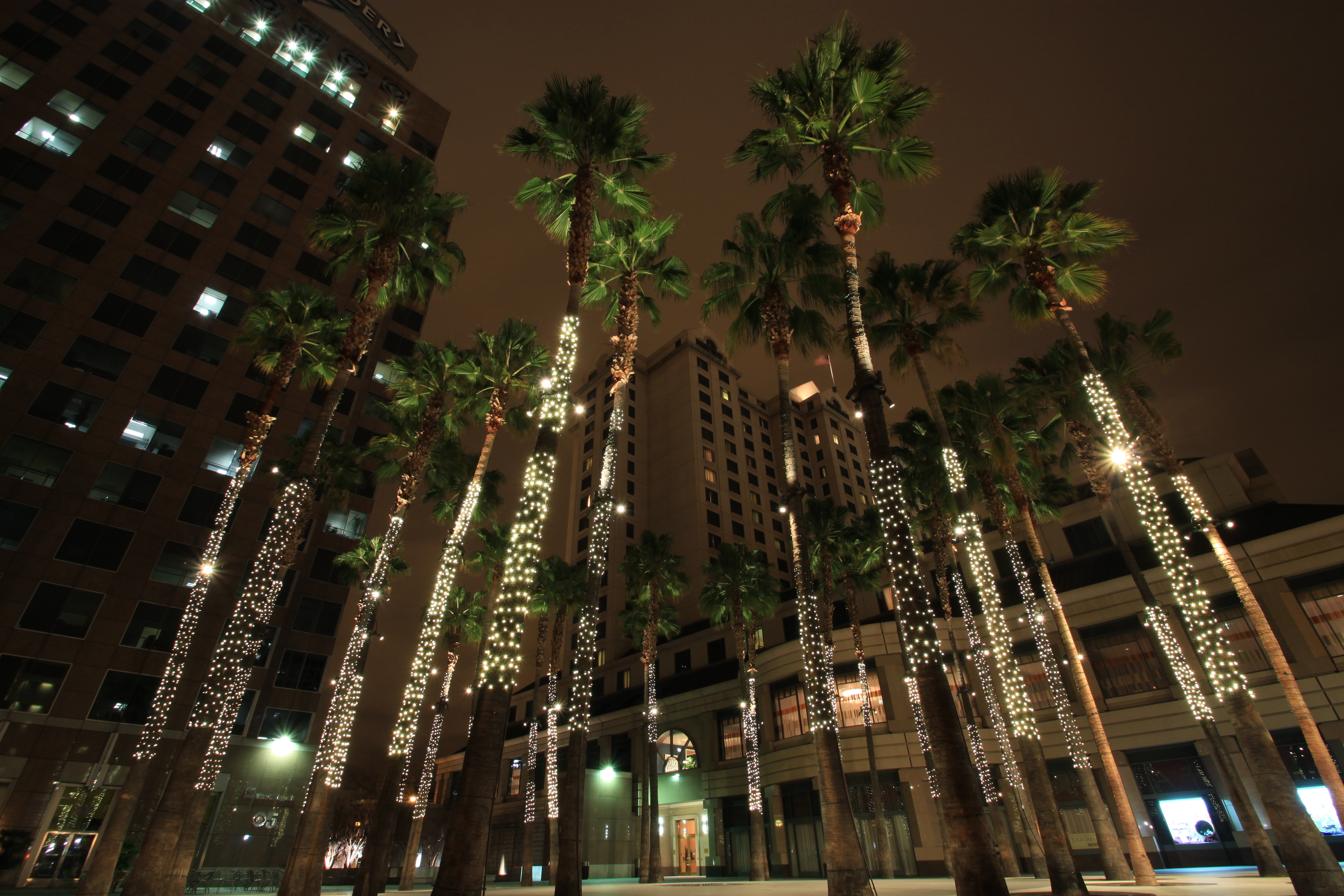 The Circle of Palms Plaza at night with the Knight Ridder and The Fairmont buildings in the background.